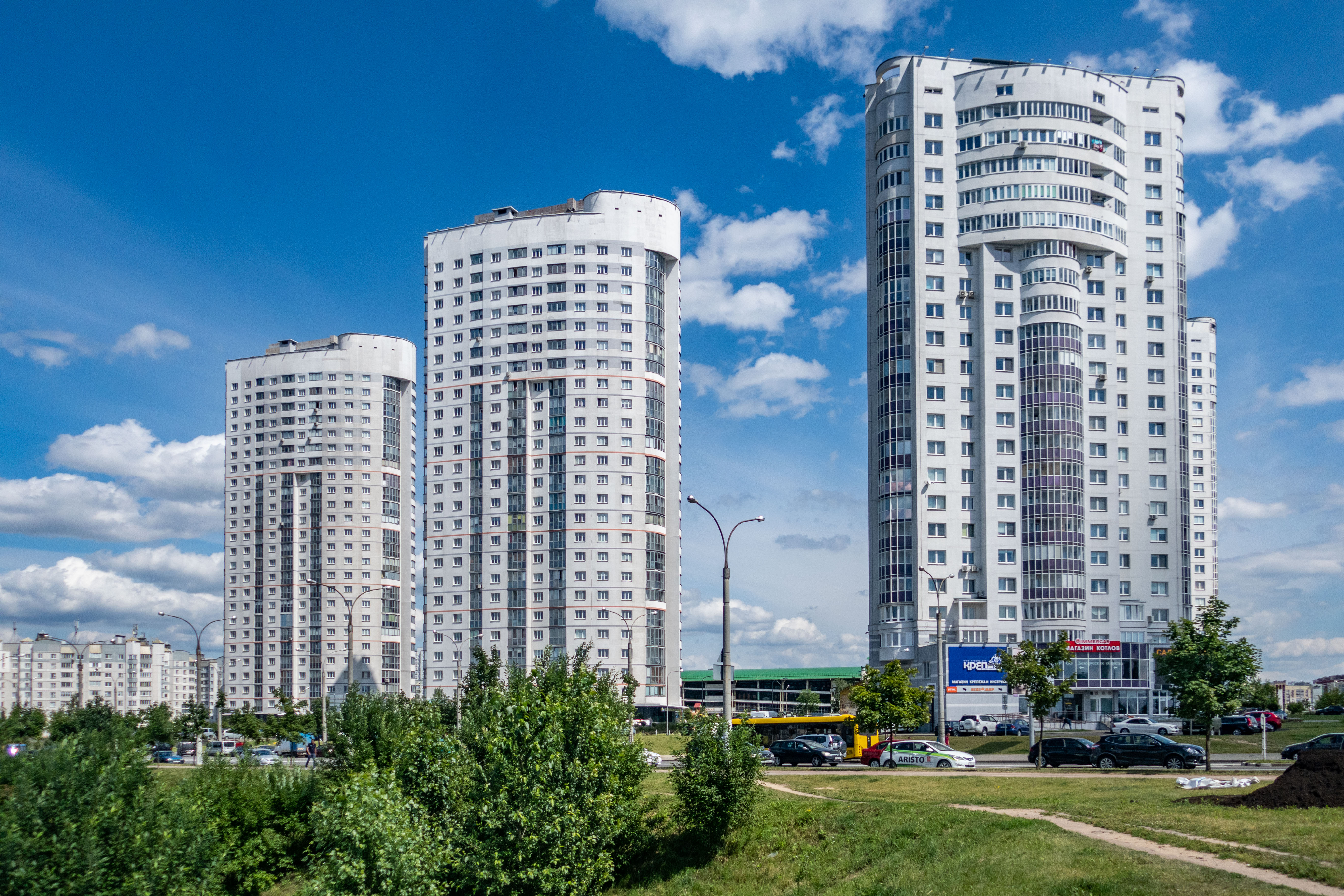 Prytyckaha street. Minsk, Belarus